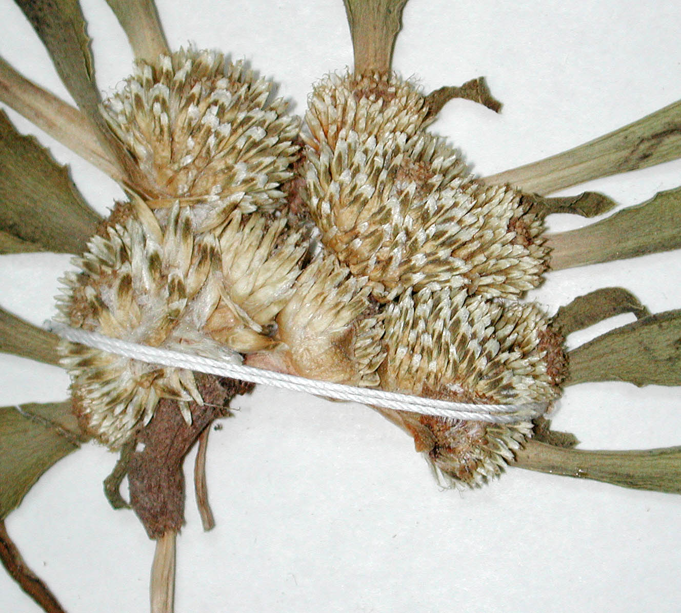 Gymnarrhena micrantha Desf. US herbarium specimen